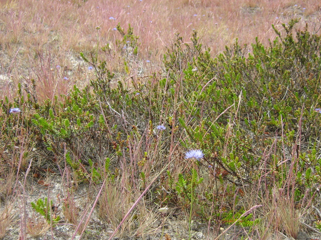 Grey dune dry heath. Jasione montana, Corynephorus canescens, Empetrum nigrum. Slowinski National Park. Poland.